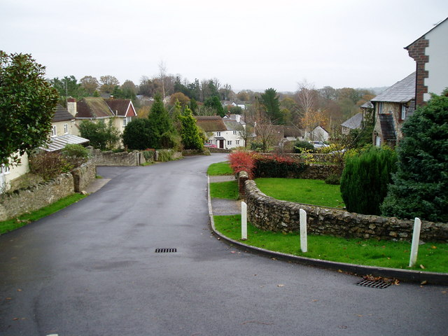 Front gardens in Smallridge Road to Smallridge Village Hall and Church.